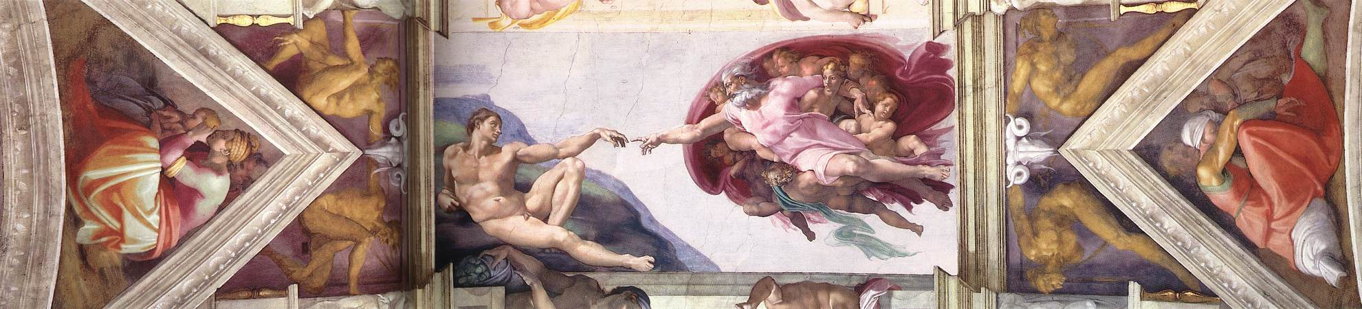 Sistine chapel ceiling: bay 6